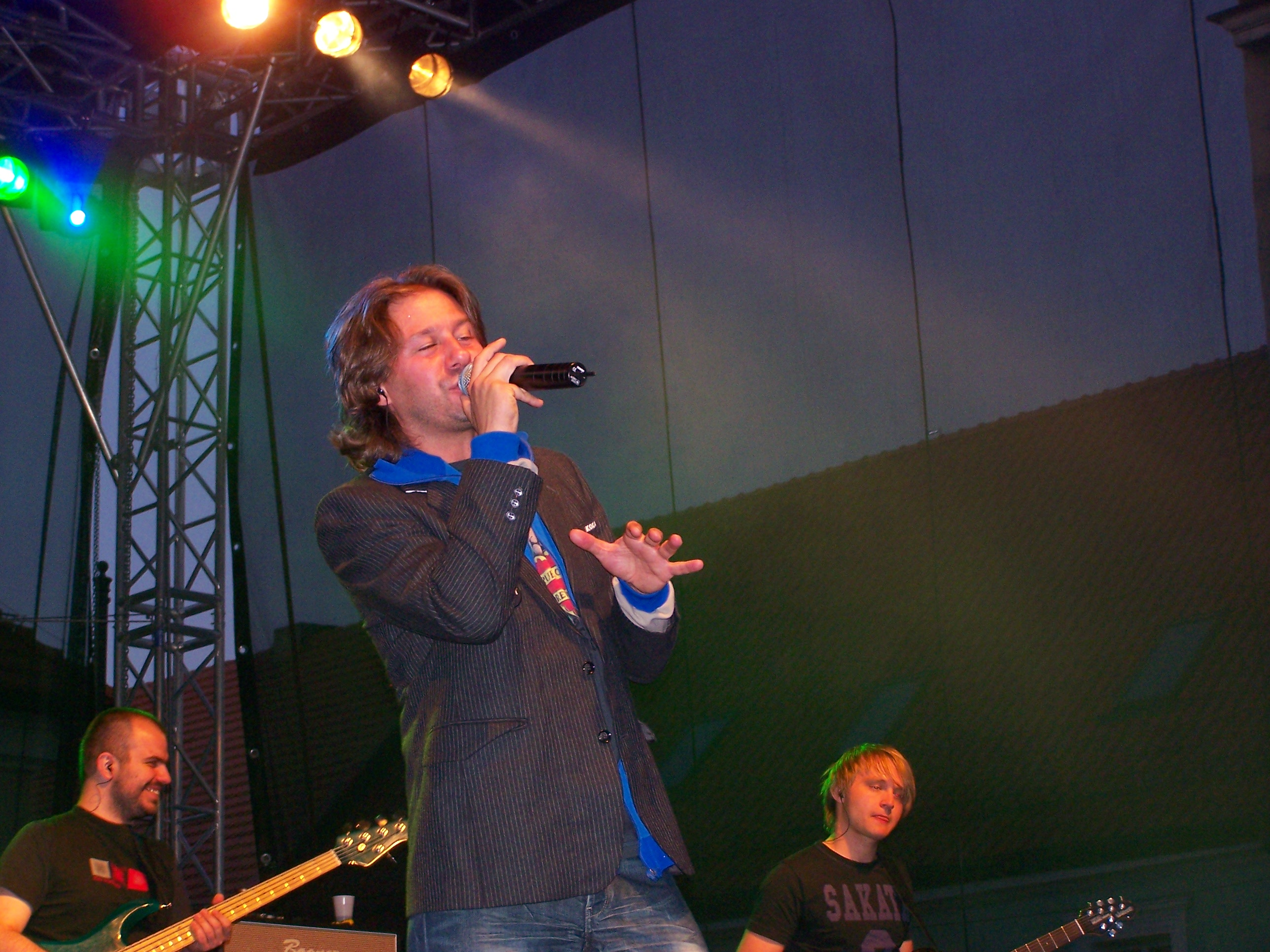 Andrzej "Piasek" Piaseczny. Photo taken during Days of Mikołów.